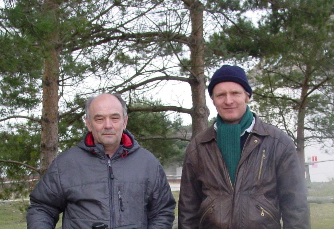 Reinhart Heinrich (left) with his coworker Stefan Schuster on Hiddensee island in 2004